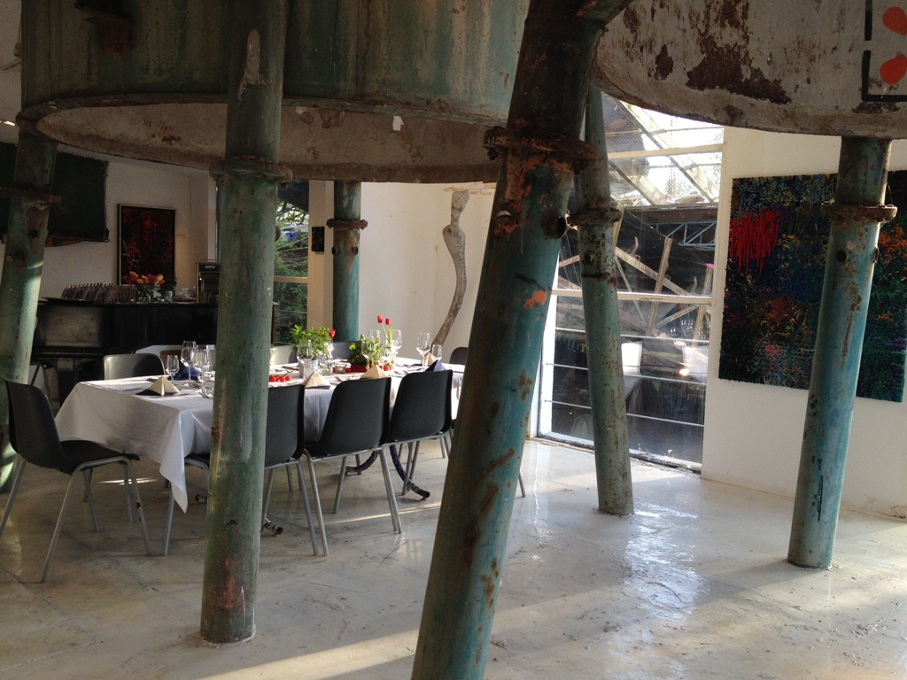 Gallery - interior